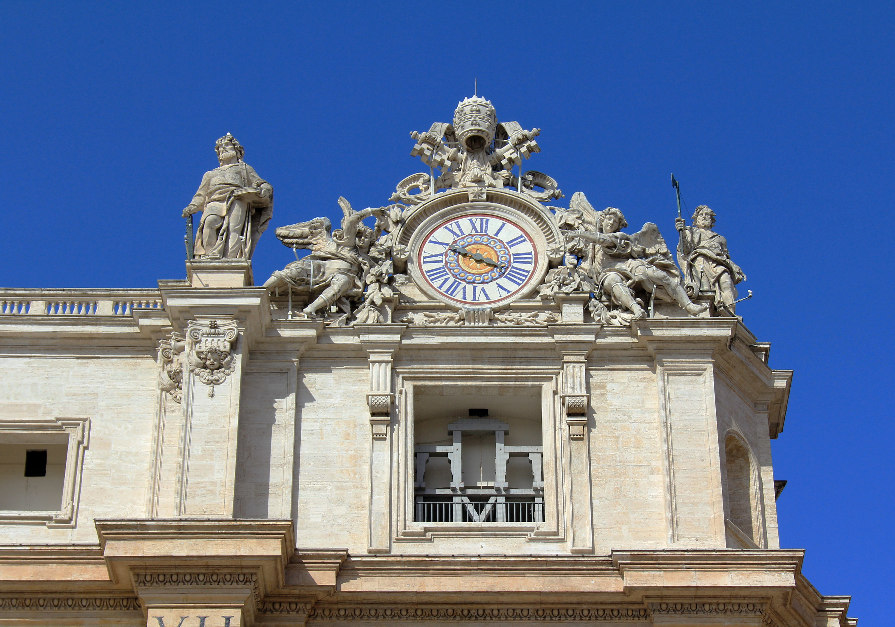 Clock on the top-right corner of the façade of St. Peter's Basilica, as seen from Saint Peter's Square. The standing statues are Saints Simon (left) & Matthias (right).